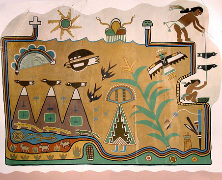 This mural painted on one of the walls within the Painted Desert Inn was created by Hopi artist Fred Kabotie, commissioned by Mary Jane Colter (architect & designer) who worked on design elements of the building in 1947 and 1948. (NPS Photo)